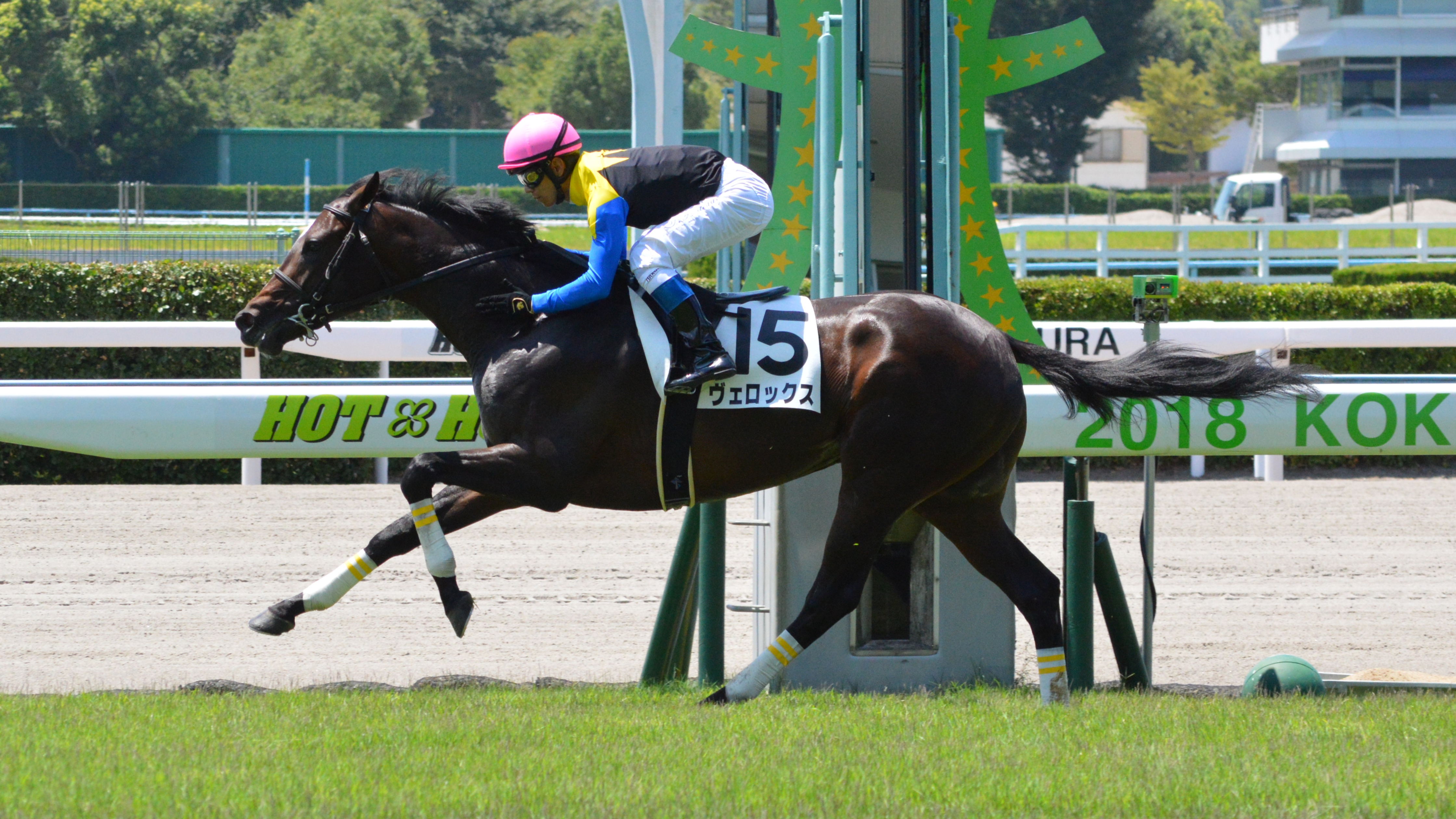 Japanese race horse Velox at Kokura racecourse. Kokura (JPN) 5 Aug 2018Maiden (Turf) 1m1f Firm RankHorse NameOddsAgeWgtJockeyTrainer1stVelox (JPN)9/10FC28-7Suguru HamanakaMitsumasa Nakauchida2ndPlanet Earth (JPN)40/1C28-7Fuma MatsuwakaSei IshizakaOthers are omitted. (16 horses entered in a race.)